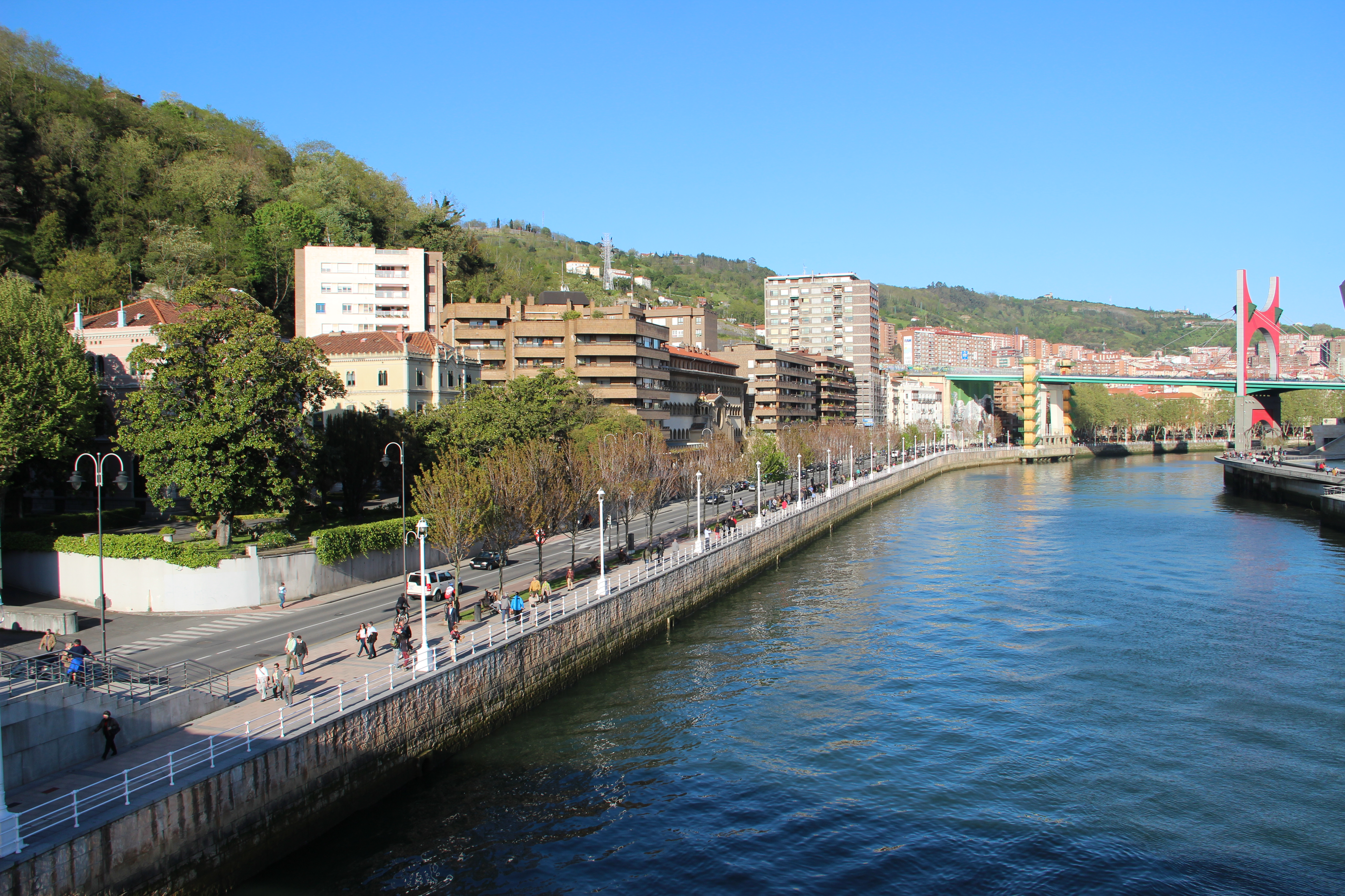 View from the Puente Pedro Arrupe